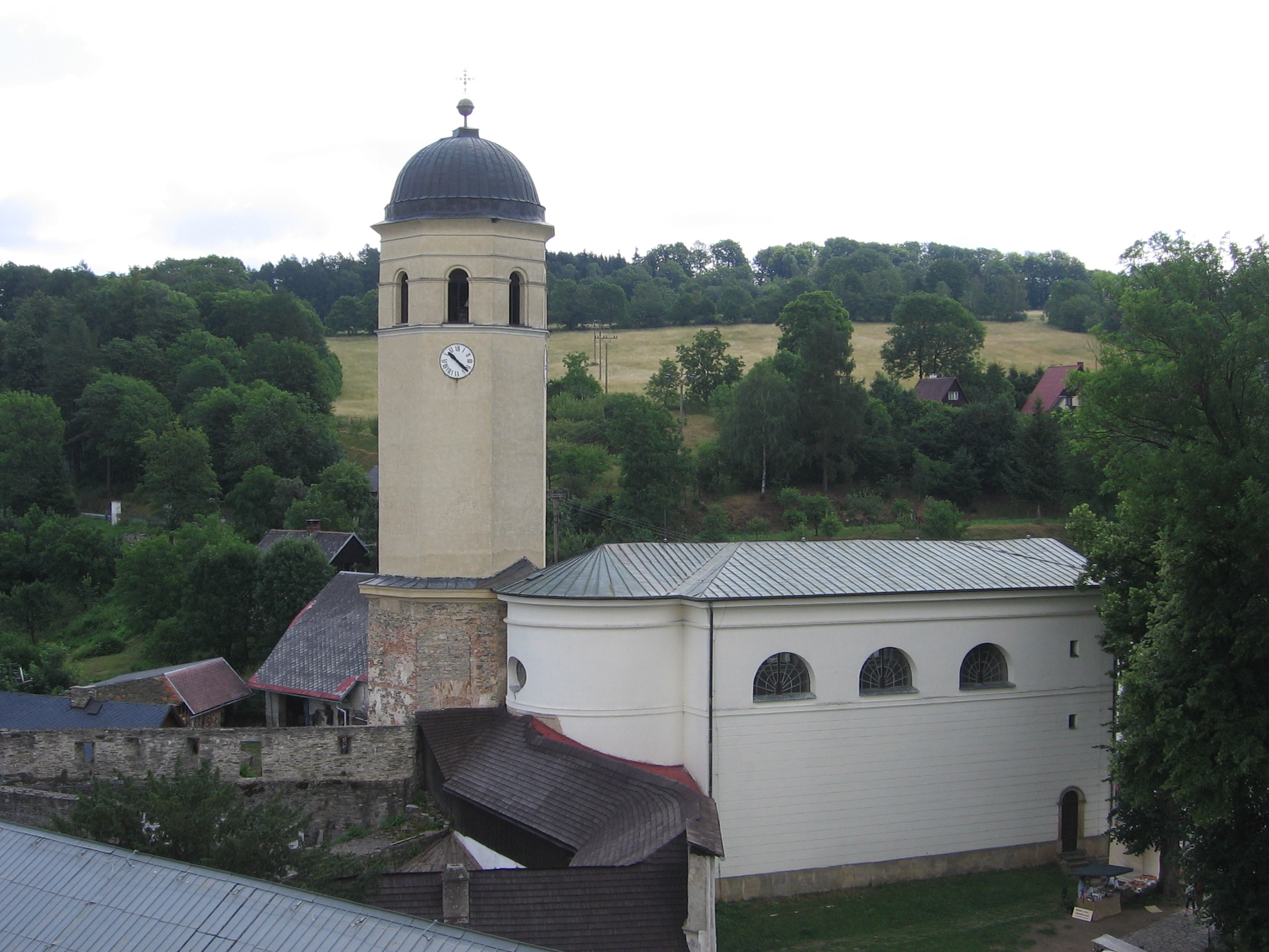 St. Augustin Church by Castle Sovinec in Moravian-Silesian Region (Czech Republic)